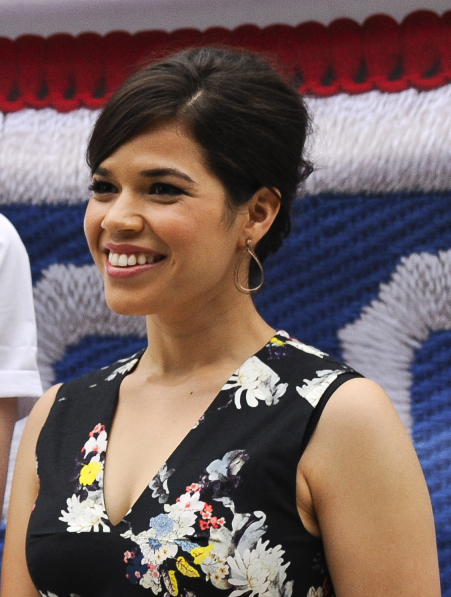 “How to Train Your Dragon 2” cast Dean DeBlois, writer and director, Jay Baruchel, voice of Hiccup, and America Ferrara, voice of Astrid, conduct an interview during an advanced screening of the movie open to military members and their families June 4, 2014, at Joint Base McGuire-Dix-Lakehurst, N.J. The visit to JB MDL was part of a USO tour allowing military families the ability to view the movie a week early, ask cast members questions and get autographs. (U.S. Air Force photo by Staff Sgt. Scott Saldukas/ Released)